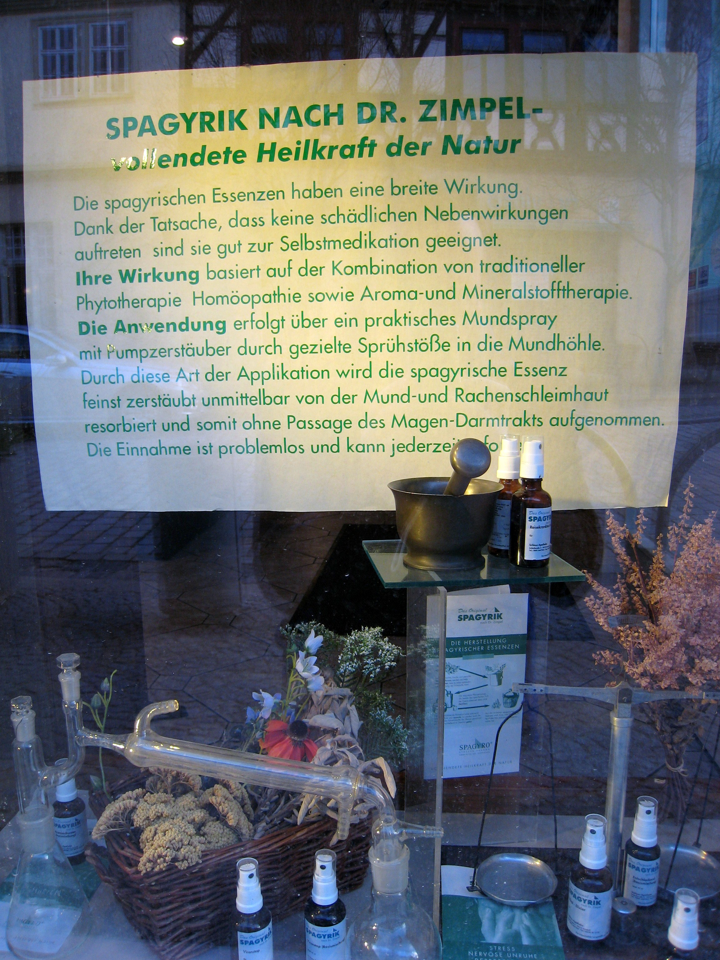 Spagyrik Zimpel, pharmacy in Arnstadt